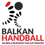 Balkan handball logo